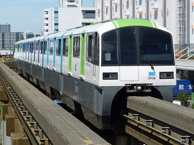 Refurbished Tokyo Monorail 2000 series set 2031 approaching Ryutsu Center Station